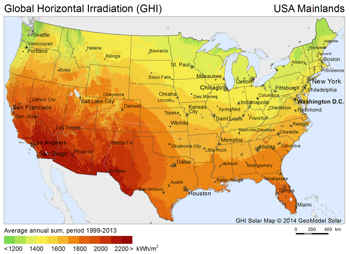 Solar Radiation Map: Global Horizontal Irradiation Map of the United States of America, SolarGIS. US Mainlands only.